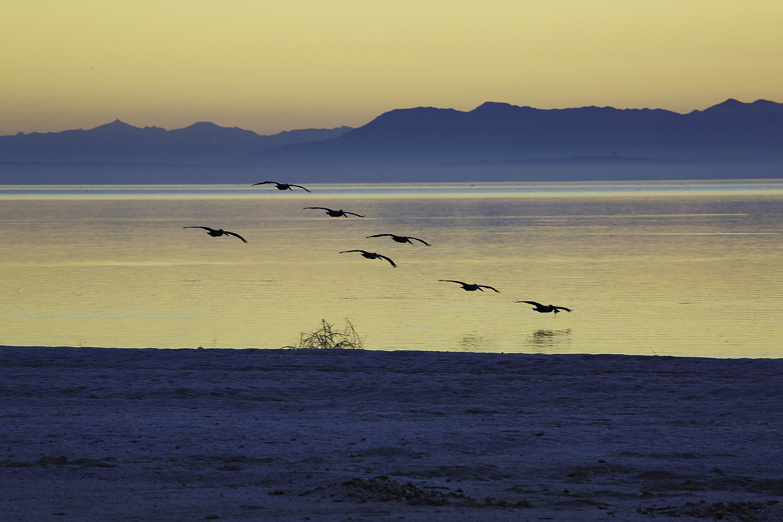 Brown Pelicans feeding at Sunset on the Salton Sea - 12/14.